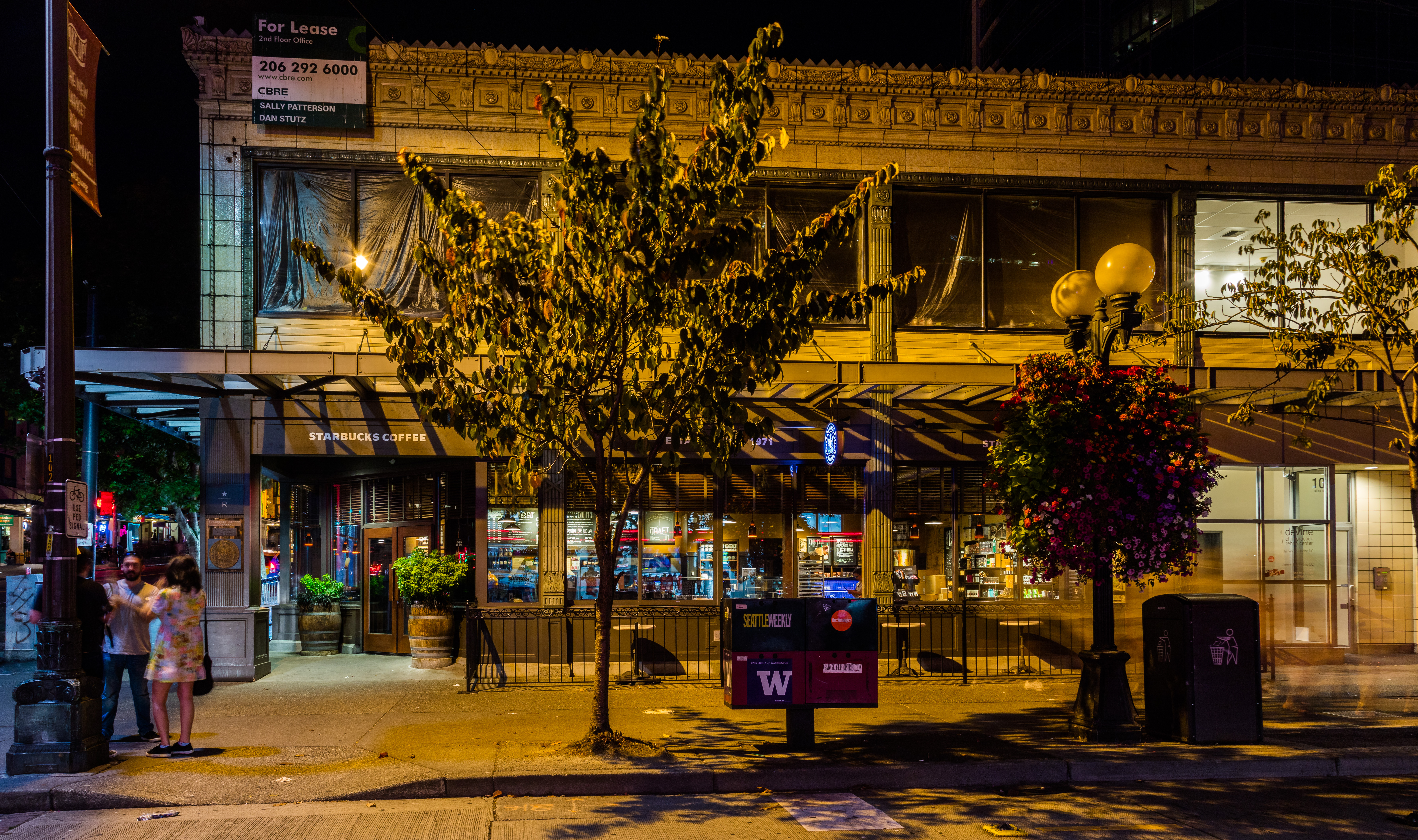 One of several Starbucks locations near Pike Place Market, Seattle, Washington, USA